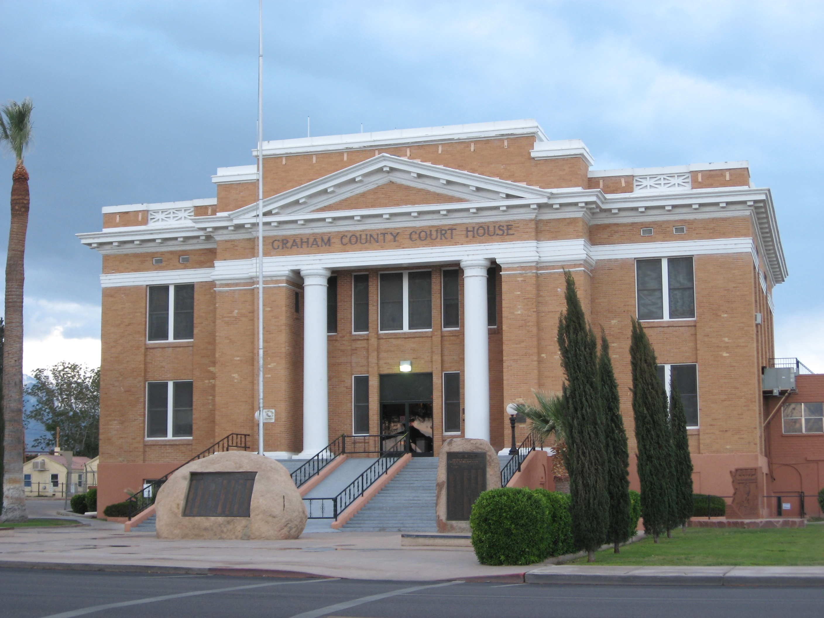 Front of the Graham County Courthouse, located at 800 Main Street in Safford, Arizona, United States. Built in 1916, it is listed on the National Register of Historic Places.